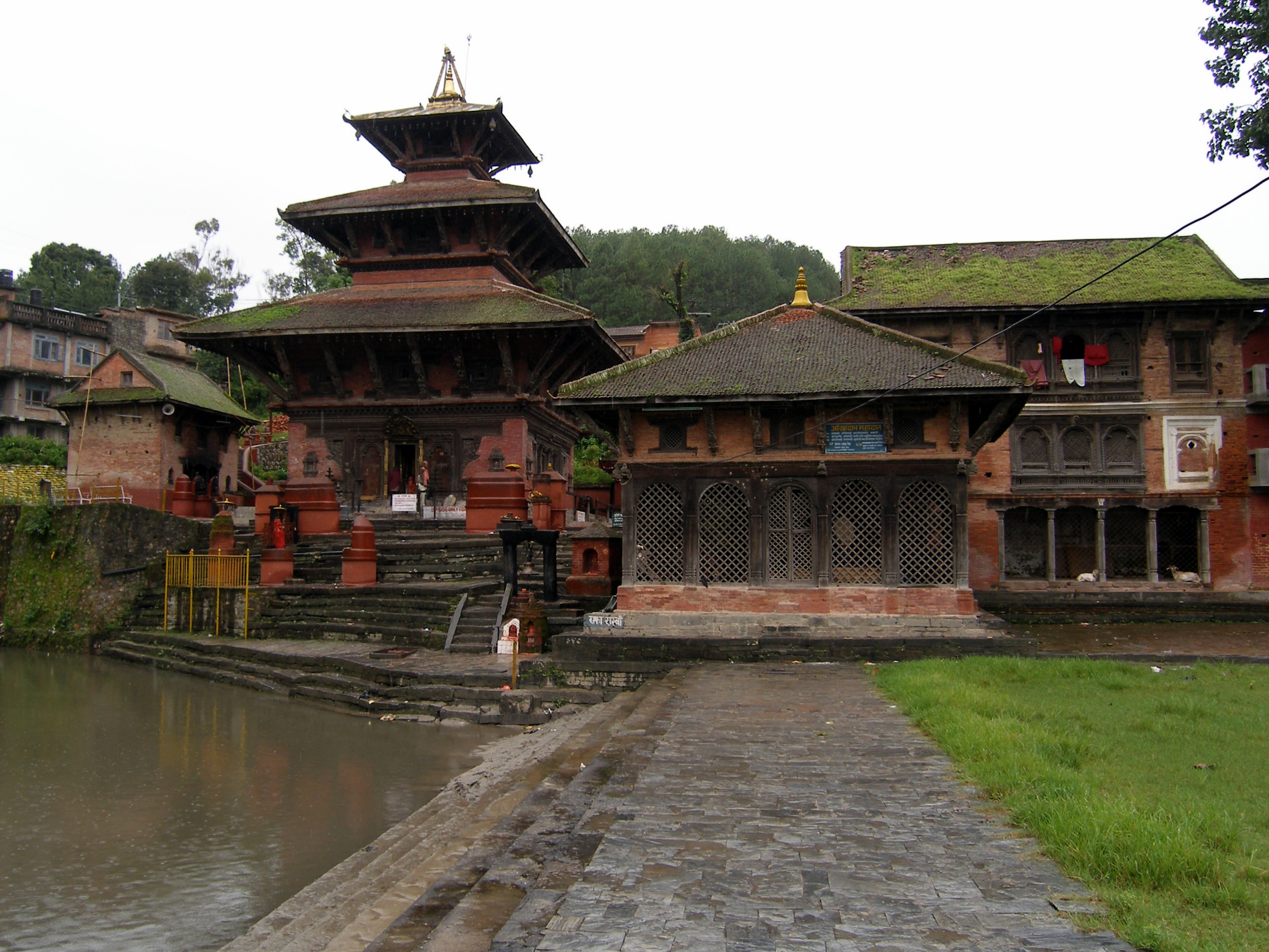 Eastern side of the Gokarna Mahadev Temple (Gokarneshwar; Lord of Gokarna), in Gokarna, Nepal.